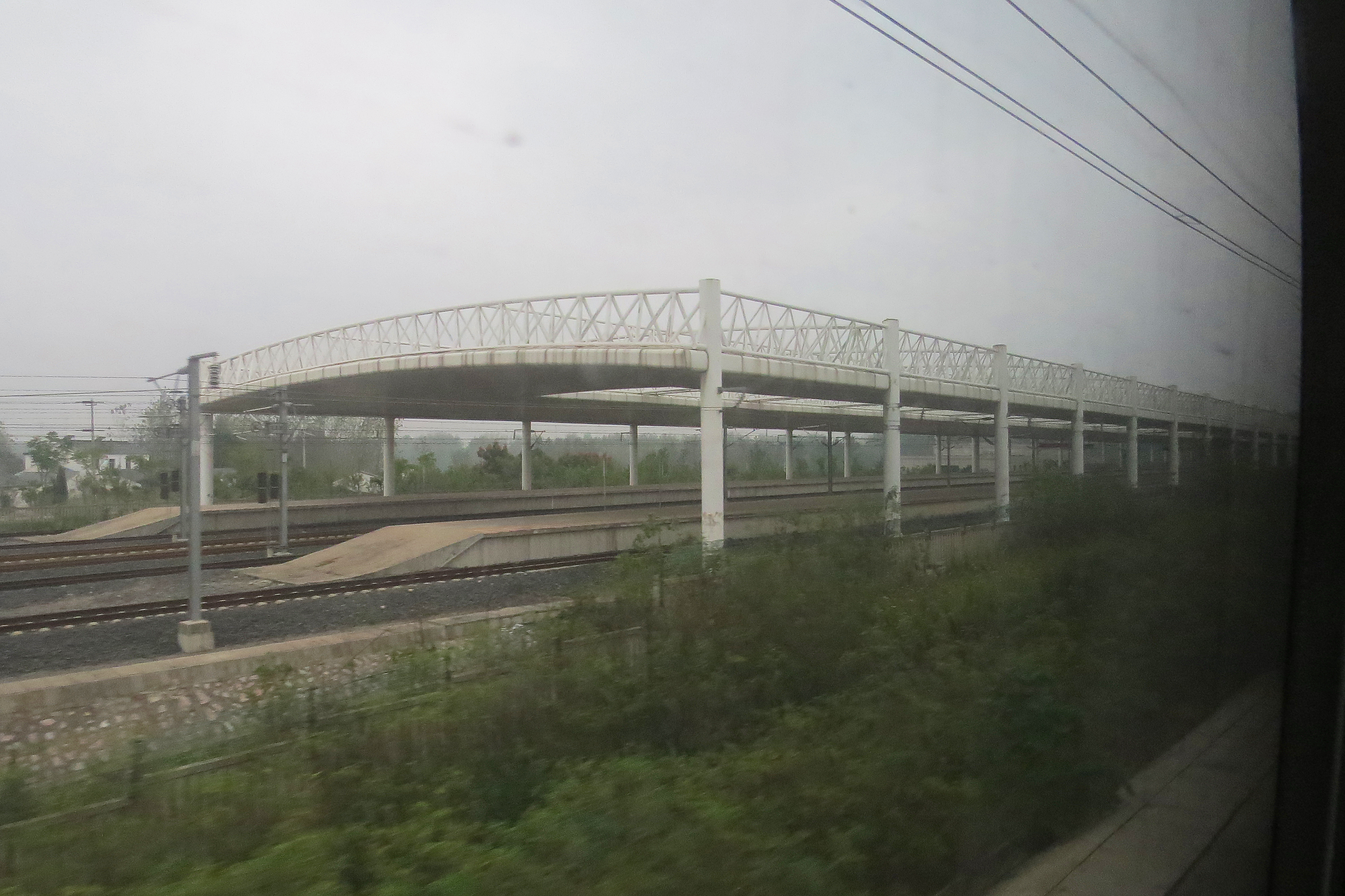 This station has never been put in use.